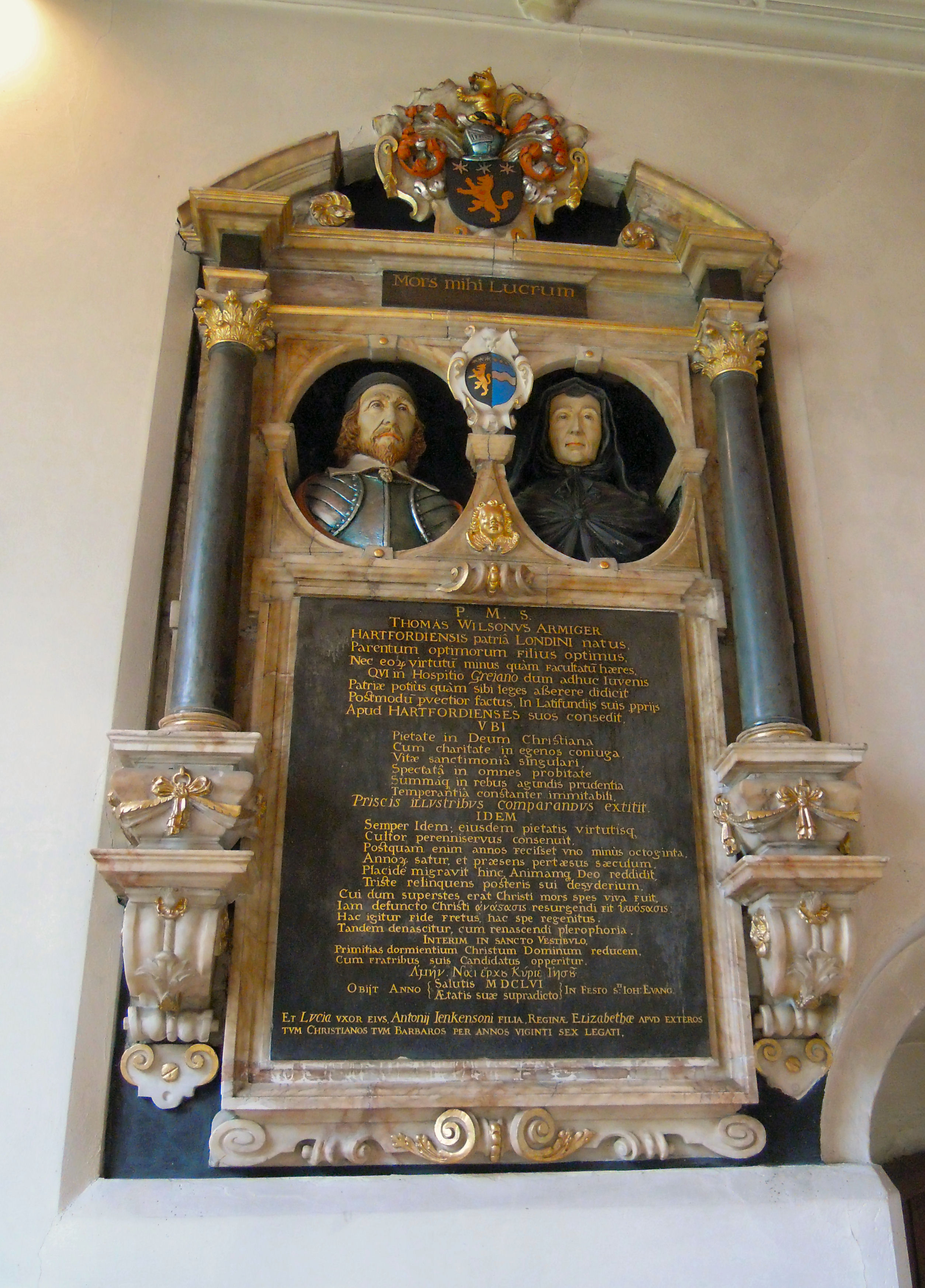 The tomb of Thomas and Lucy Wilson (1656) in the chancel of the Church of All Saints, Willian